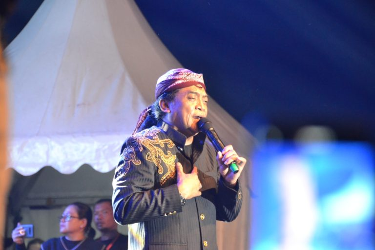 THE 189th ANNIVERSARY, PURBALINGGA WAS ENTERTAINED BY DIDI KEMPOTPURBALINGGA - Goenteoer Darjono Sport Building in Purbalingga Regency became a sea of ​​people attended by thousands of Ambyar's friends from various directions to witness the appearance of Campur Sari singer "Godfather of Broken Hearts" Didi Kempot, Saturday (21/12). Some songs were sung such as: Flying Missing, Gold Necklace, Banyu Langit, Sewu Kuto and Suket Teki.